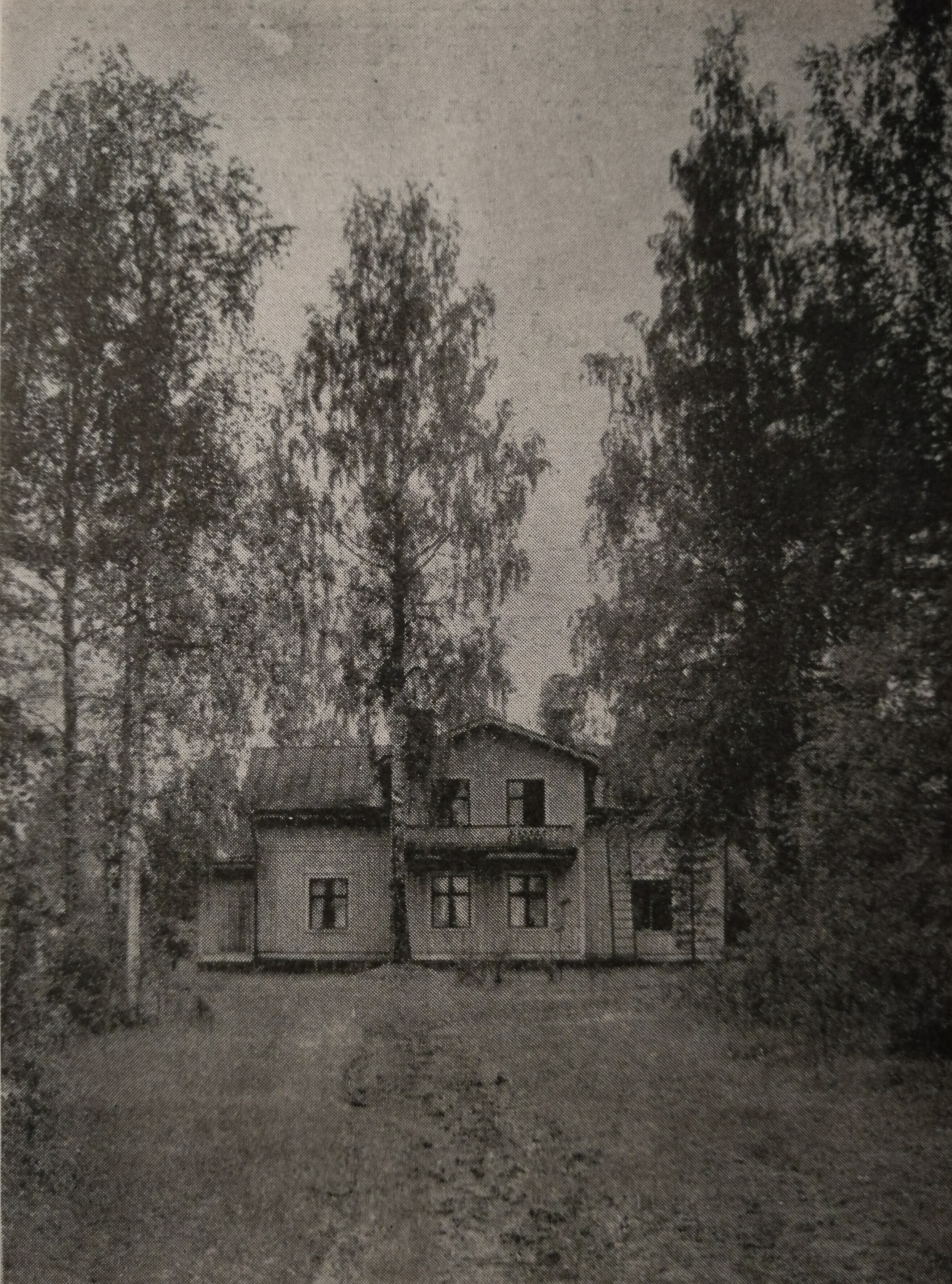 The farm Åminne